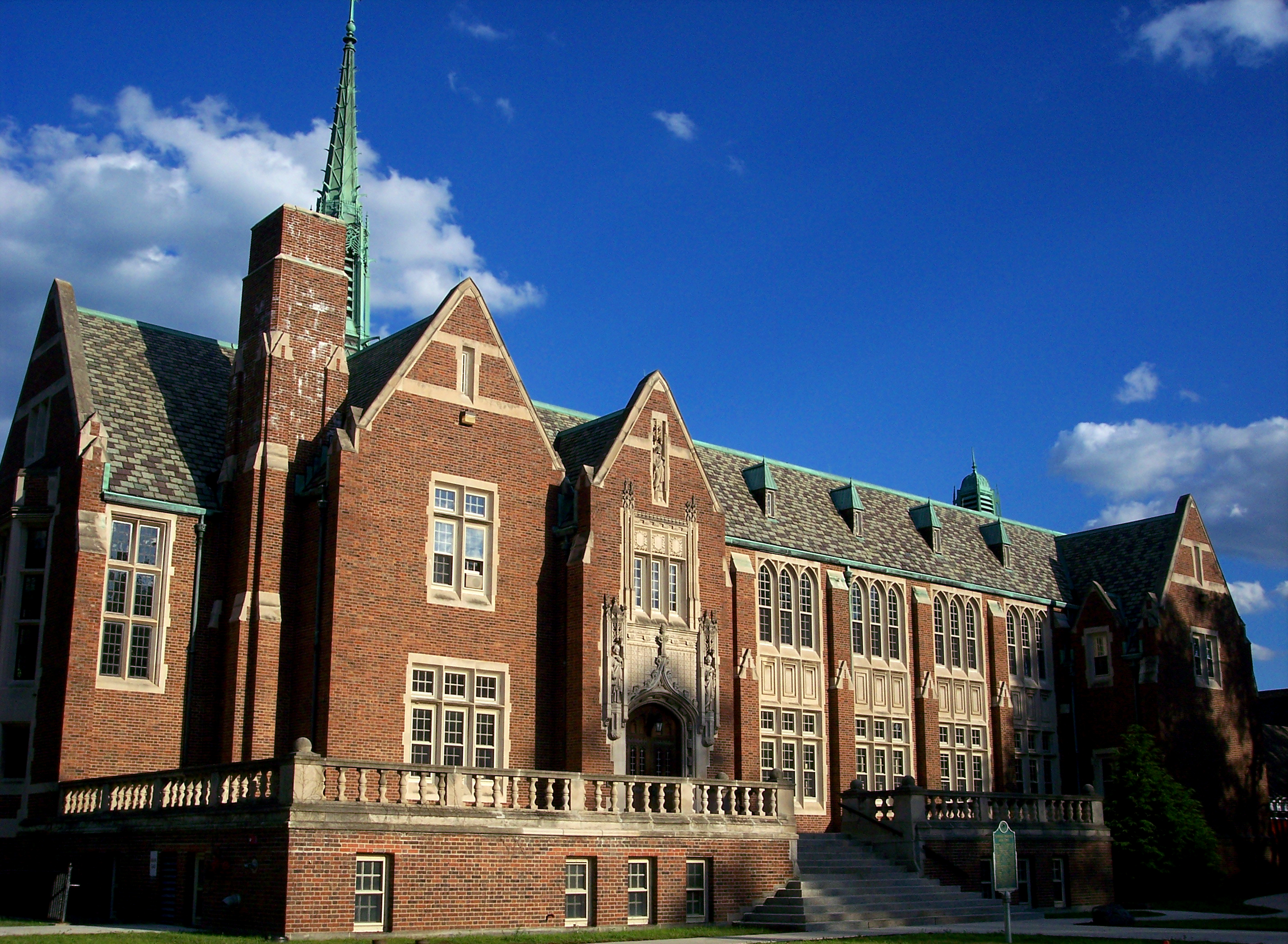 The Grosse Pointe Academy — a private school in Grosse Pointe Farms, Michigan. The Gothic Revival style building was built in 1887 to house the Academy of the Sacred Heart, a private Catholic boarding school until 1969. It is on the National Register of Historic Places in Wayne County. The campus is a Michigan State Historic Site, and a Historic district on the National Register of Historic Places.